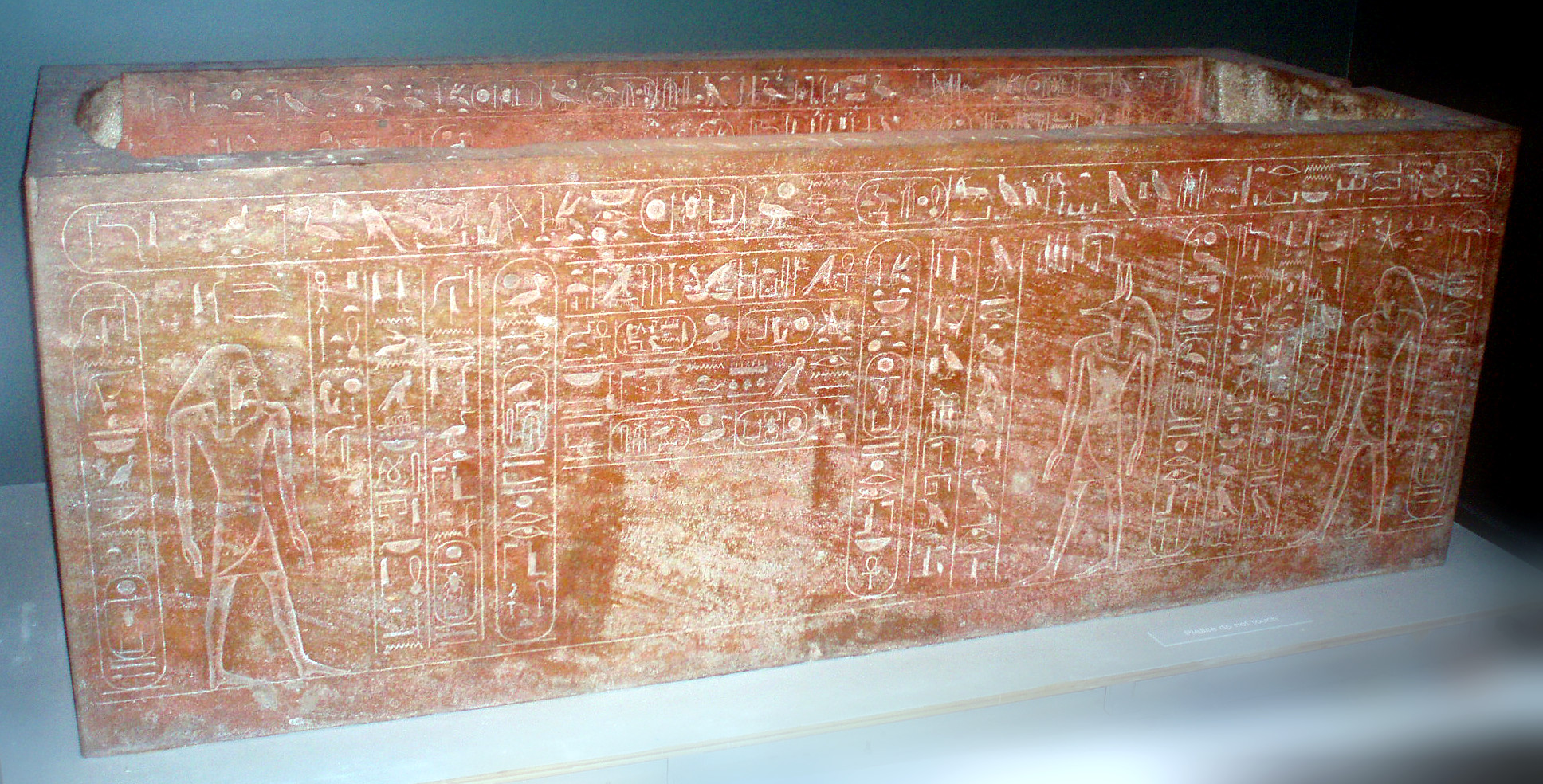 Sarcophagus originally intended for Hatshepsut, reinscribed for her father, Thutmose I. Made of painted quartzite, from the Valley of the Kings, Thebes. 18th dynasty, reign of Hatshepsut, circa 1473-1458 B.C. Now residing in the Museum of Fine Arts, Boston.